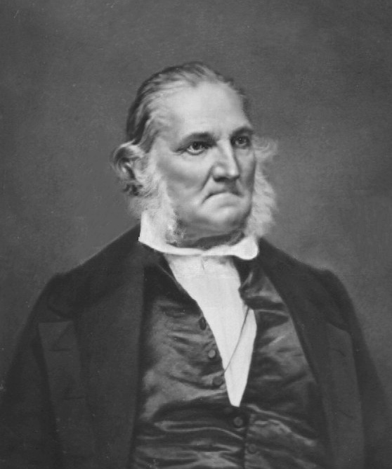 J.J. Audubon in later years.John Audobon [i.e. Audubon]